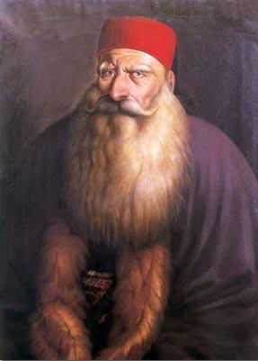 Bashir Chehab - Lebanon's Prince